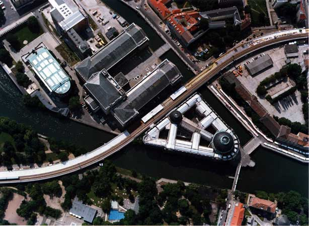 aerial view of the Museumsinsel in Berlin